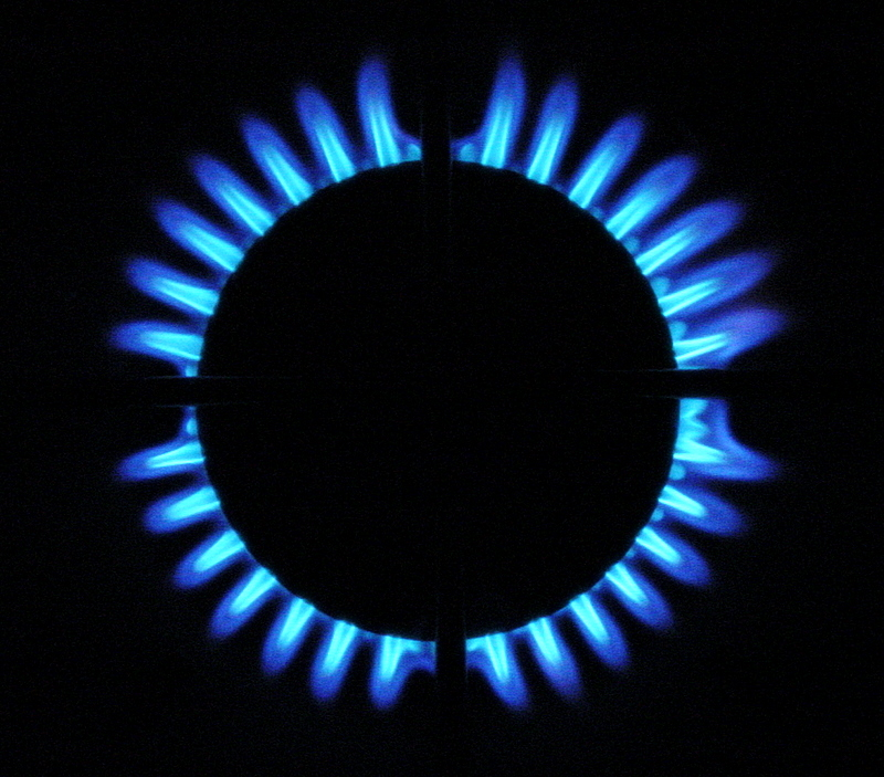 Blue flames of a gas stove. Highest position: 70 on Sunday, July 29, 2007